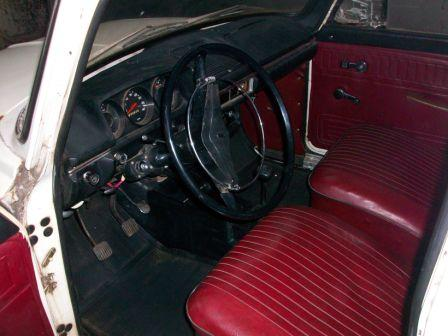 Interior view of the Moskvitch-408IE soviet car, late version produced in the 1970-s